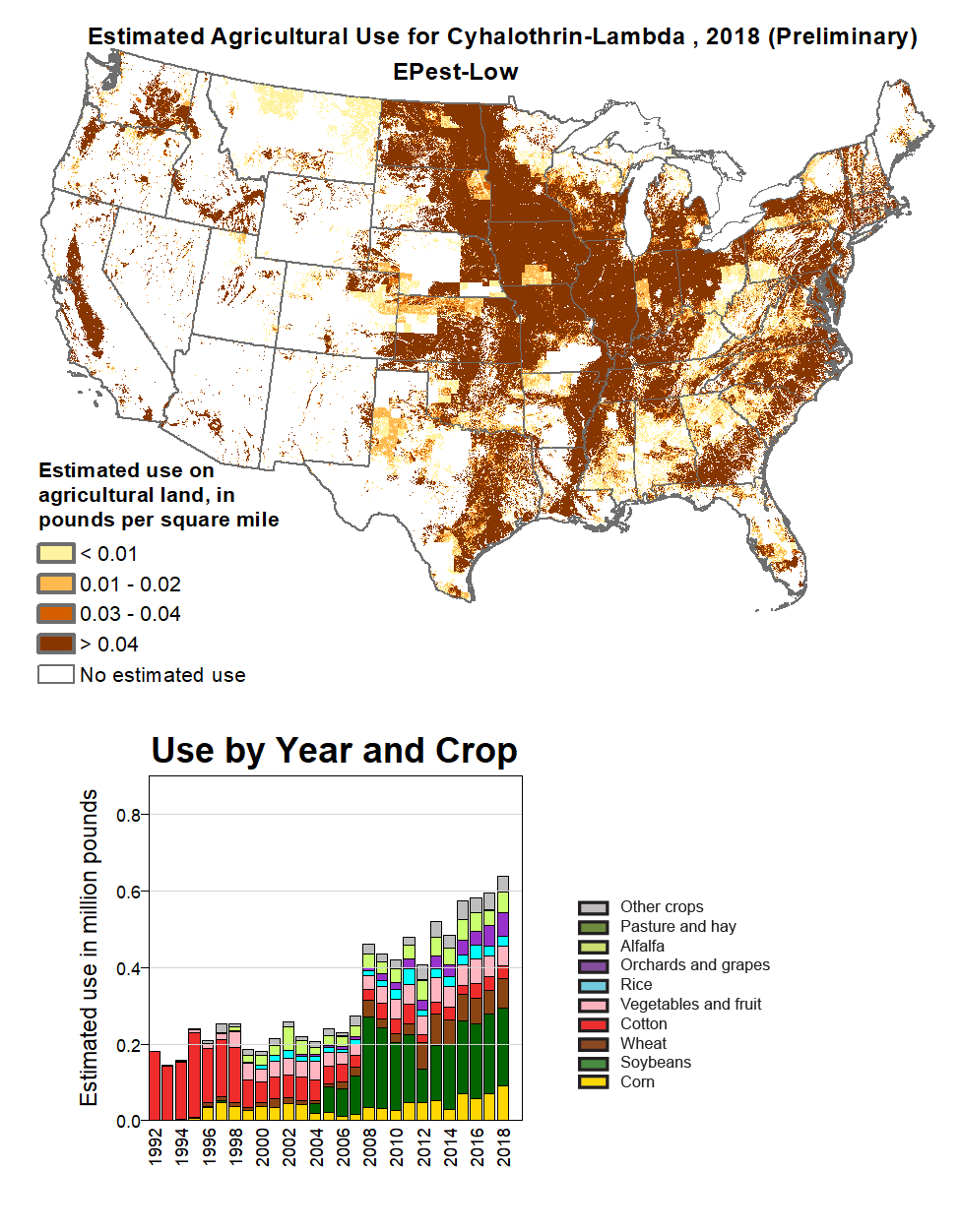 Use of insecticide lambda-Cyhalothrin in USA in 2016 (estimated by USGS)